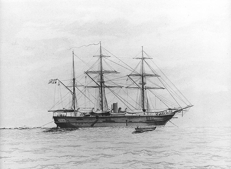 The German ship Adler before being destroyed by a hurricane.